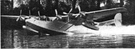 The Potez-CAMS 160 5/13 scale flight test model of the Potez-CAMS transatlantic flying boat. The Flight article says that the first flight was "last week", i.e. 19-25 June